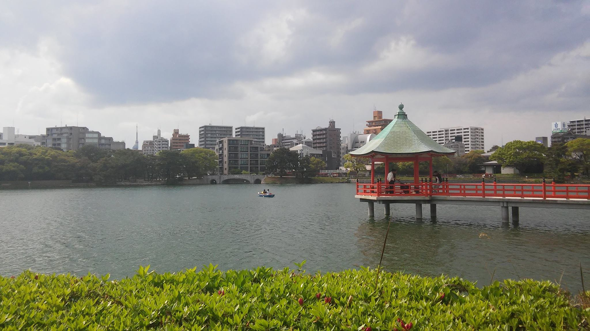 View of Ohori Park (大濠公園) in Chūō-ku, Fukuoka, Japan